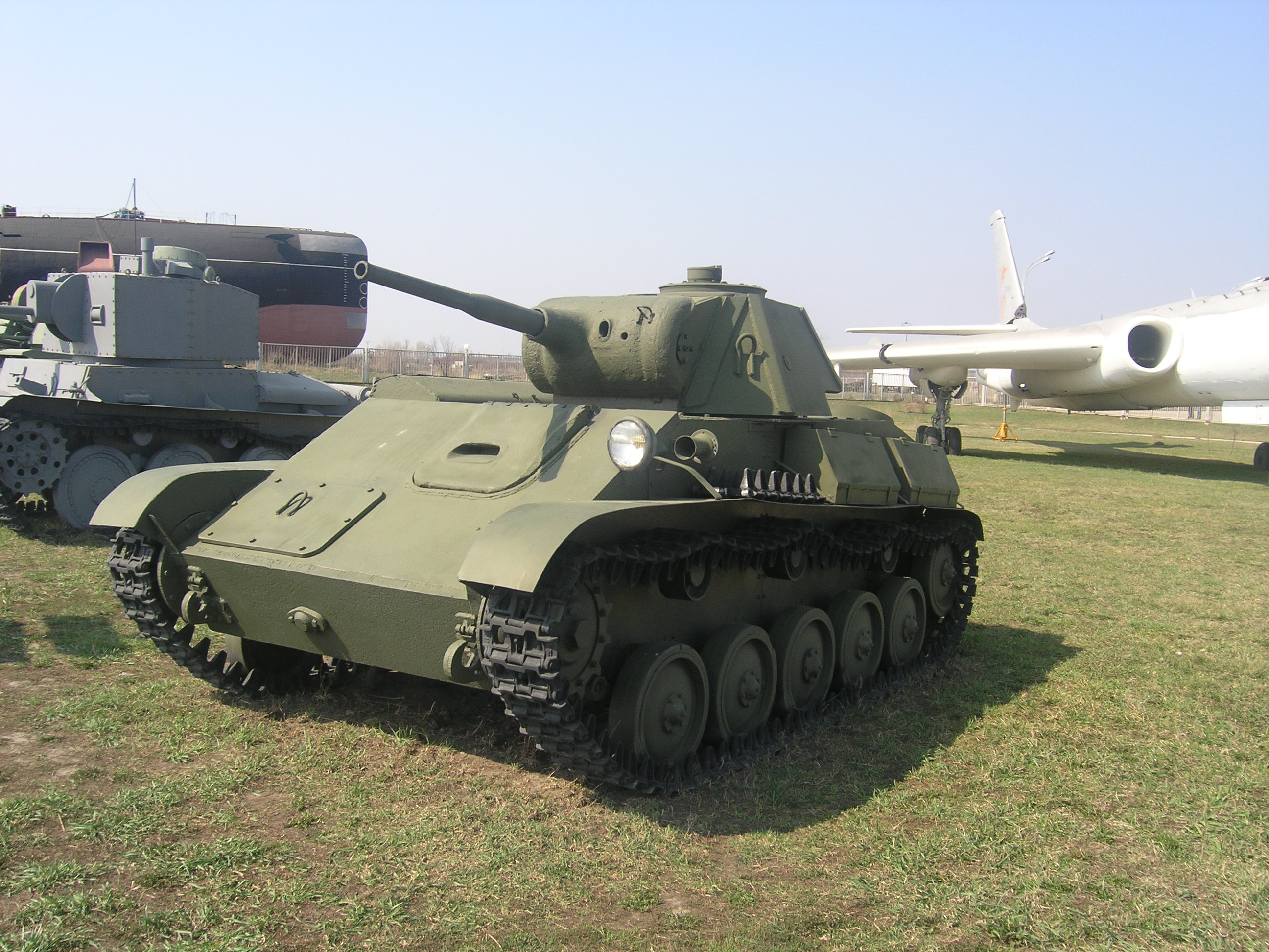 T-70, technical museum, Togliatti, Russia